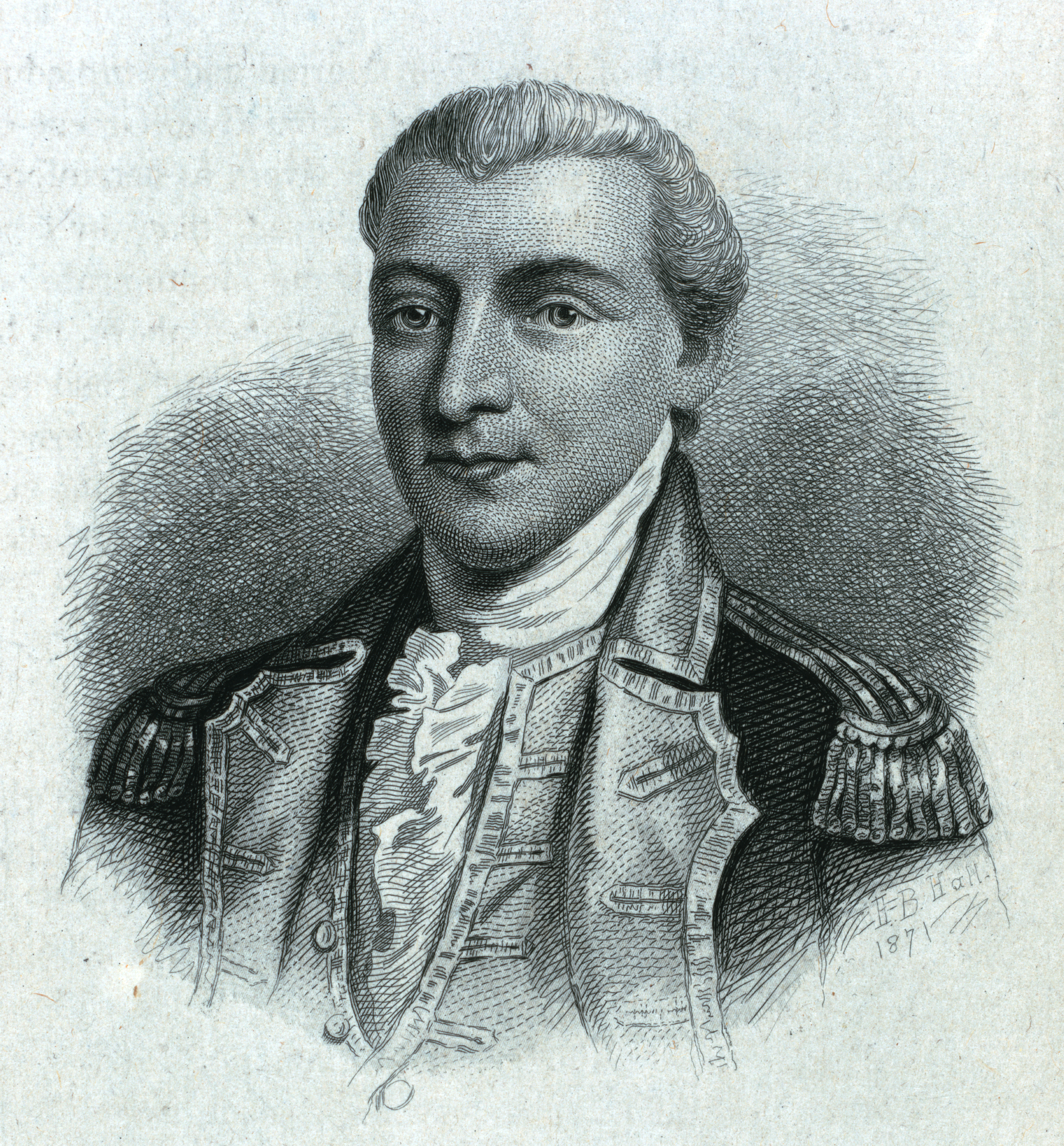 Lt. Col. John Laurens. Engraving by Henry Bryan Hall. The Miriam and Ira D. Wallach Division of Art, Prints and Photographs: Print Collection, The New York Public Library. "Lt. Col. John Laurens." The New York Public Library Digital Collections. 1871.